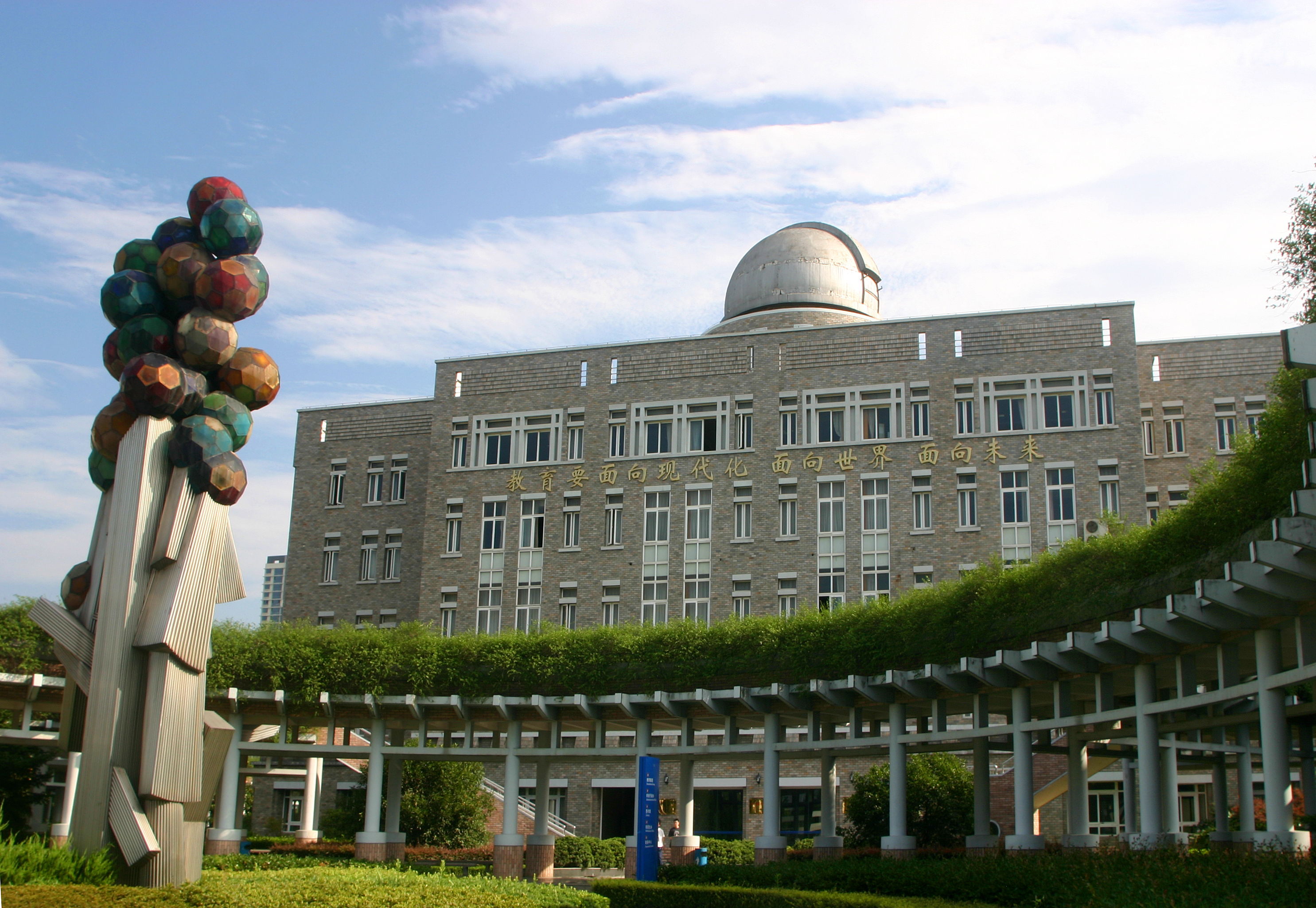 Hua Mao Multicultural Education Academy (MEA) is located to the east of the Hua Mao Administration building.